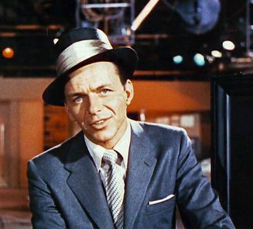 Screenshot of Frank Sinatra from the trailer for the film Pal Joey, 1957Frame taken from MPEG4.